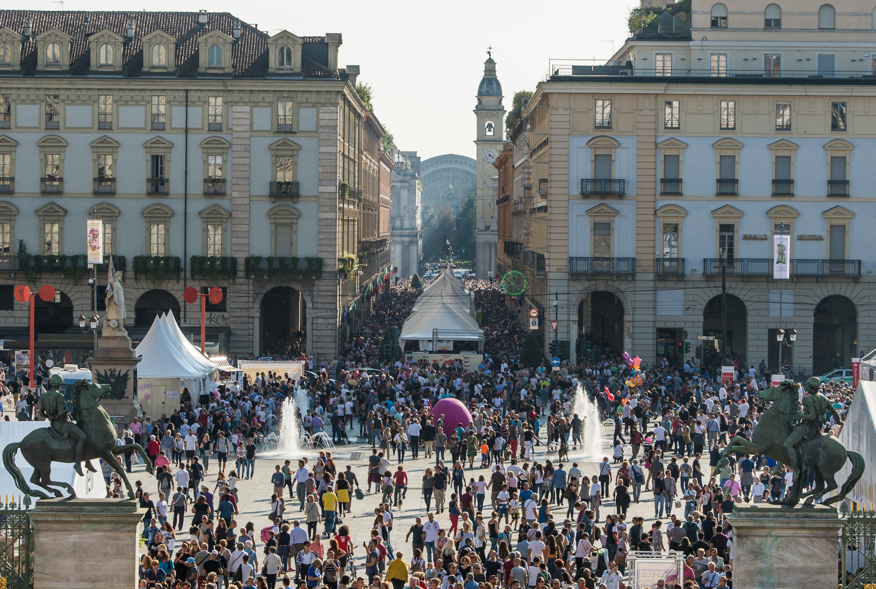 Part of the Terra Madre Salone del Gusto program in 2016 was held in Turin's central square, Piazza Castello. Photo by Alessandro Vargiu.